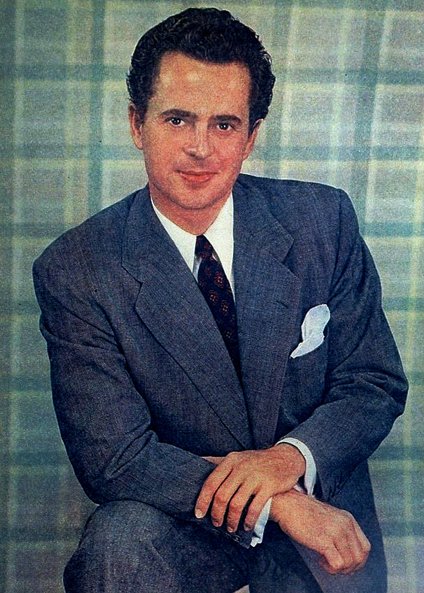 Photo of actor Larry Parks from the New York Sunday News. Dating is at upper left of uncropped photo.